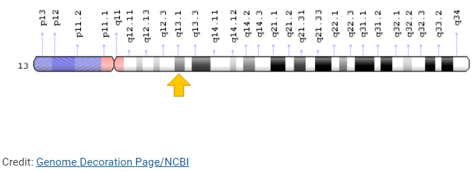 Mapa citogenético da localização do gene BRCA2